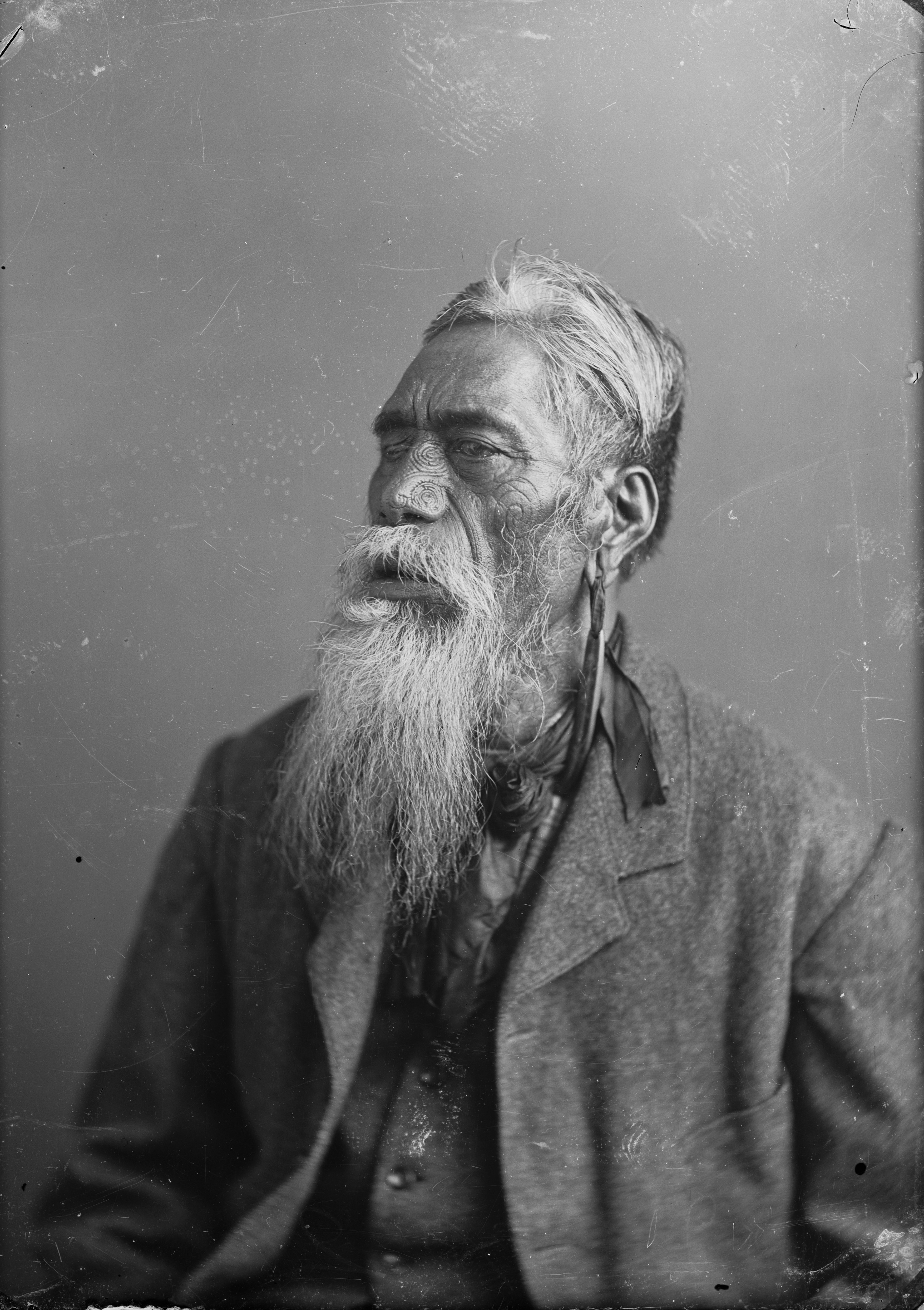 Carte de visite portrait of Renata Kawepo, taken in the 1880s by Samuel Carnell of Napier.